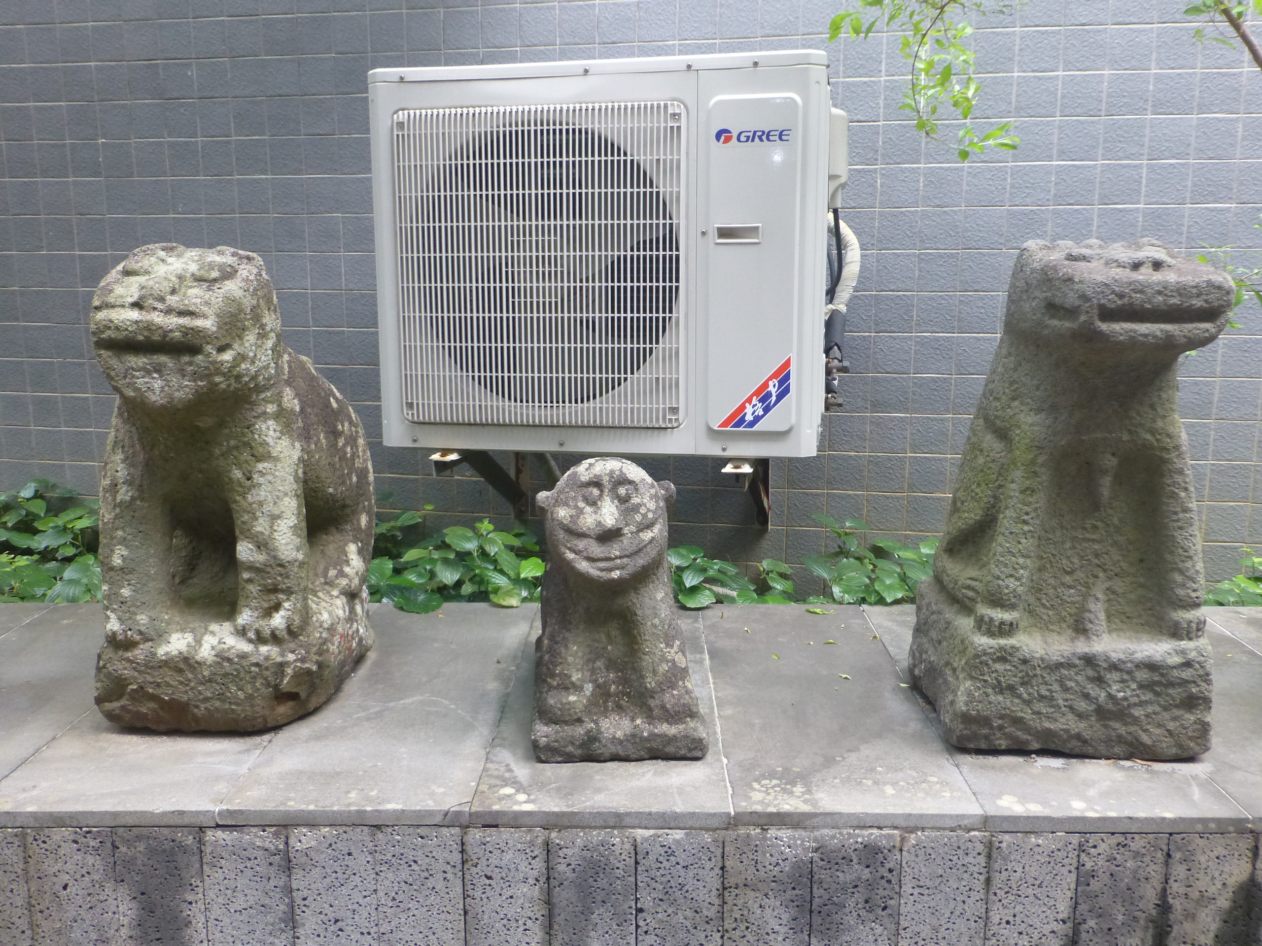 Stone dogs in the collection of Leizhou Museum. Leizhou City, Guangdong